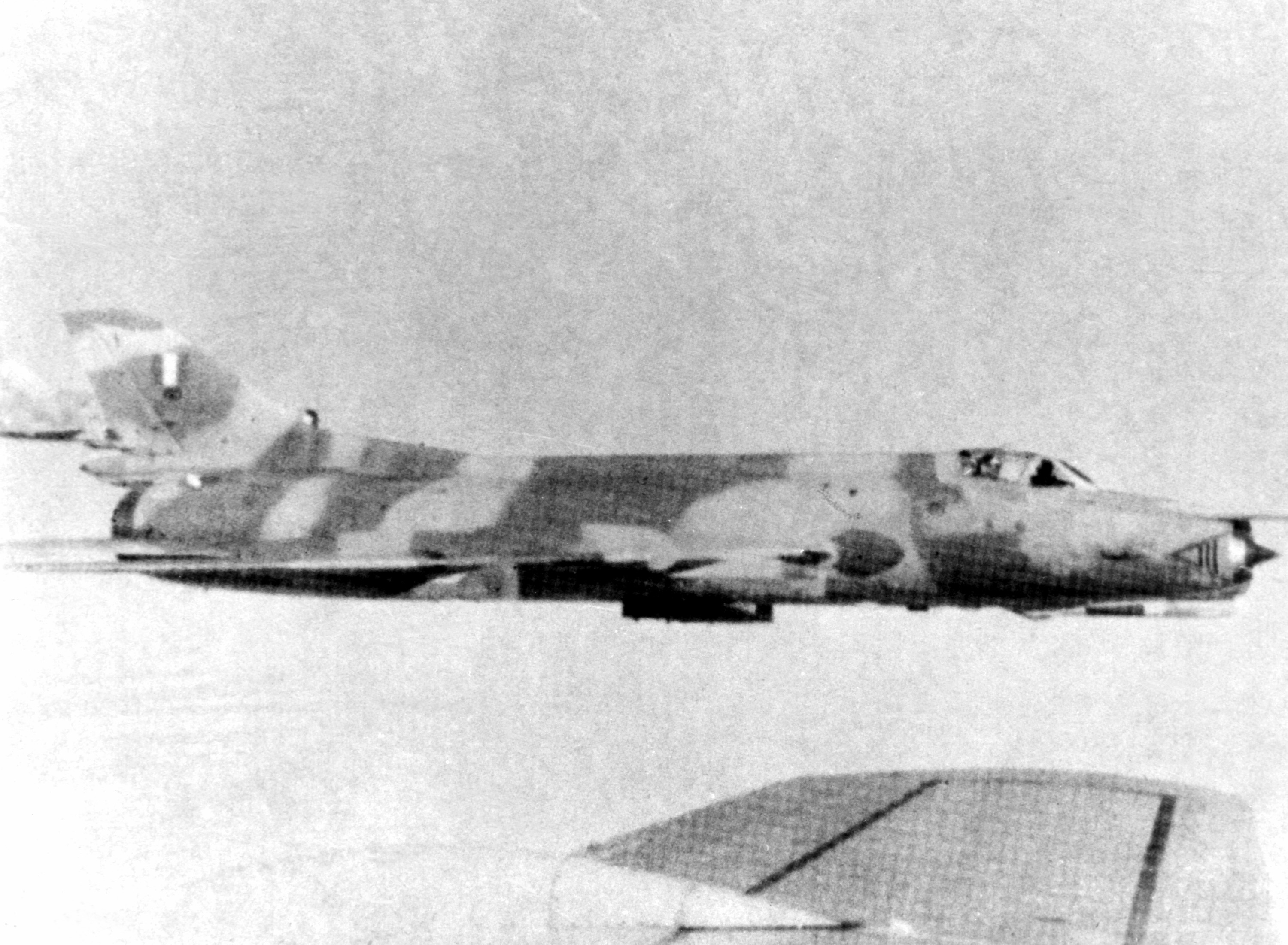 Right side view of three Soviet Su-22 Fitter-F Aircraft, from the Peruvian Air Force, in flight.Date Shot: 1 Mar 1983.